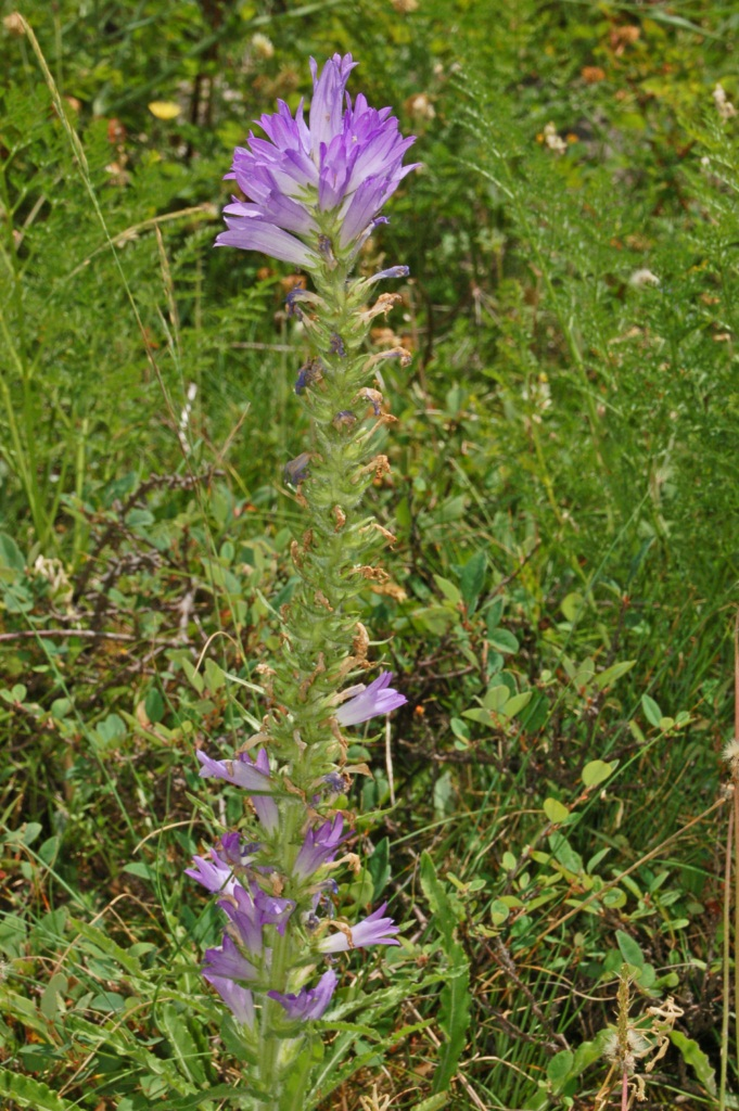 Campanula spicata - Parque des Ecrins, France